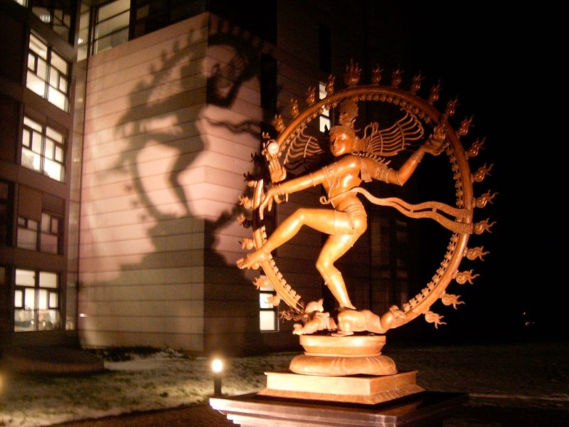 The statue of Lord Shiva at CERN near the building A40. Given by Department of Atomic Energy, India. [1] The statue is a gift from India, celebrating CERN's long association with India which started in the 1960's and continues strongly today. Unveiled at June 18 2004.